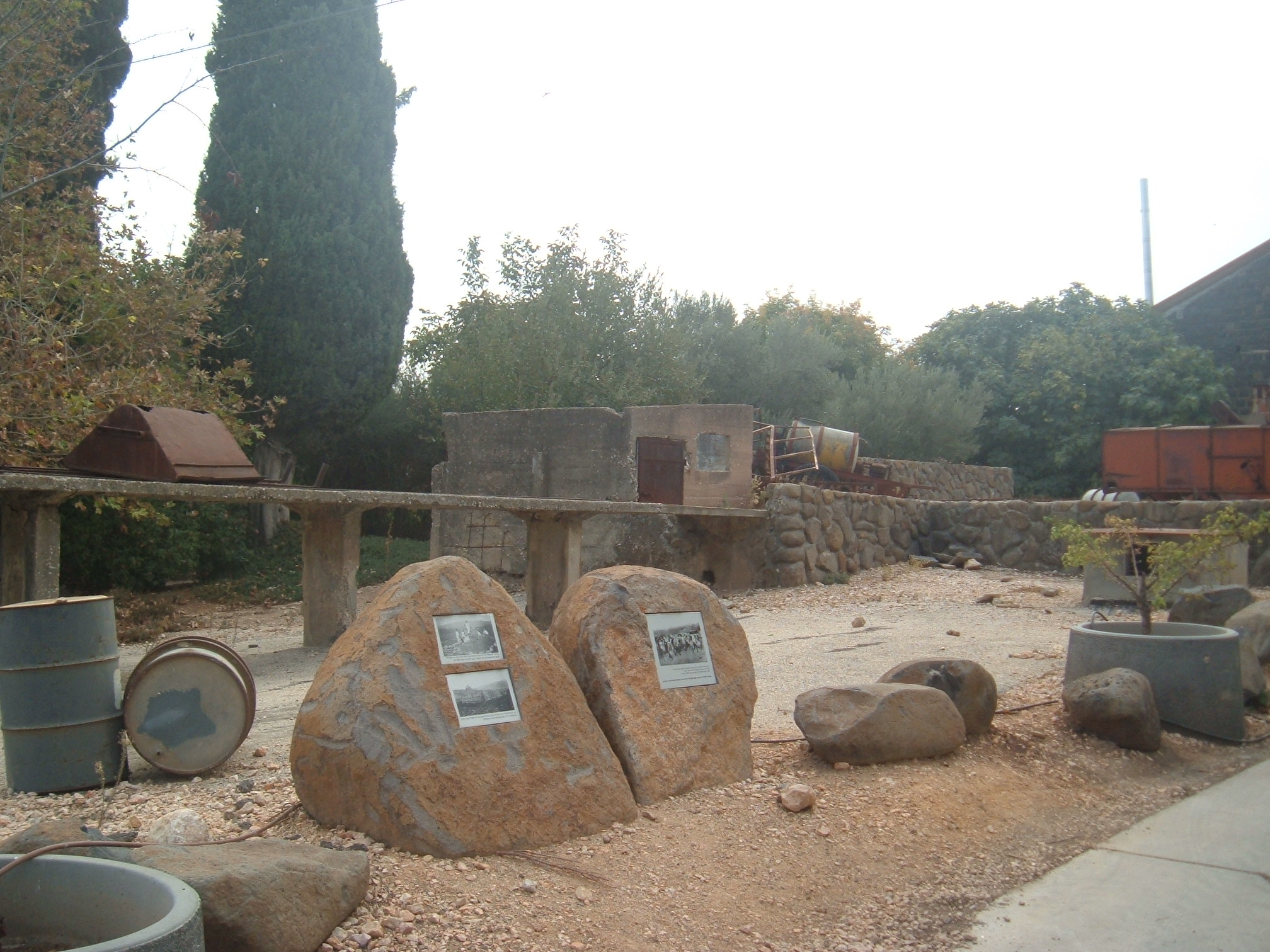 memorial stones in Kefar Giladi, Israel, where Yosef trumpeldor and other casualties of the Tel Hay affair were temporarily buried in 1920. אבני זכרון במקום בו נקברו יוסף טרומפלדור ושאר הרוגי תל חי, בקבר זמני, בכפר גלעדי, ב-1920.